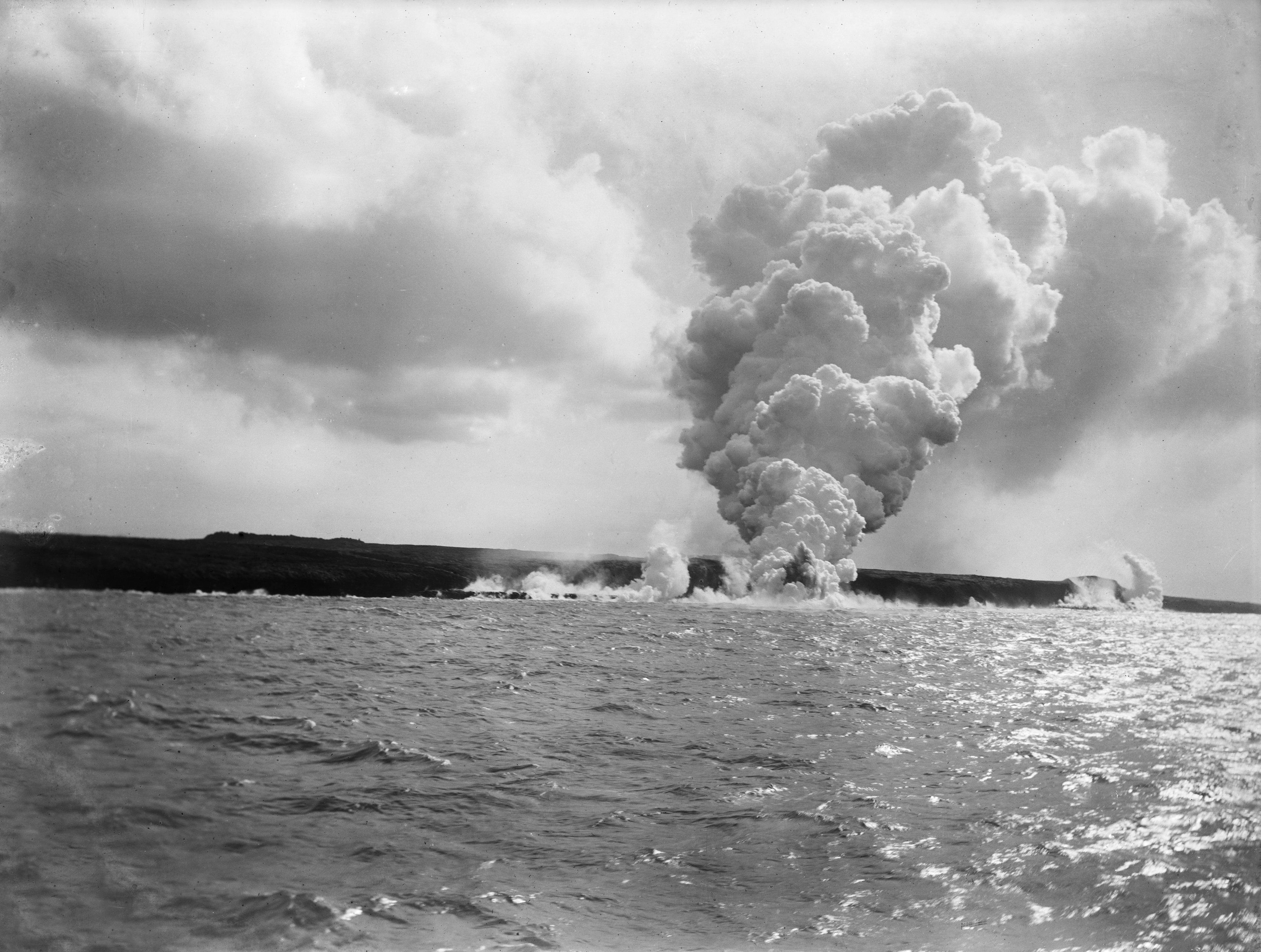 Volcanic eruption of Mt Matavanu on Savai'i island in Samoa, 1905. Lava flows to the north coast of the island in Gaga'emauga district causing columns of smoke to rise skywards. Gagana Samoa: Matavanu, le mauga mu i Savai'i i le tausaga 1905, i le itu Gaga'emauga - ua solo le lava i le sami.